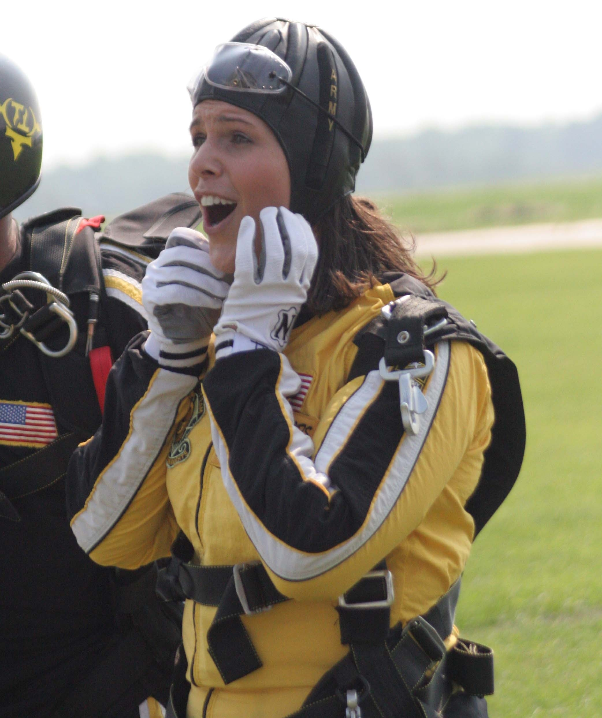 ESPN show host Dana Jacobson is overcome with excitement following her sky dive with the U.S. Army Parachute Team-the Golden Knights. Also participating were Jay Crawford and Geraldo Rivera.